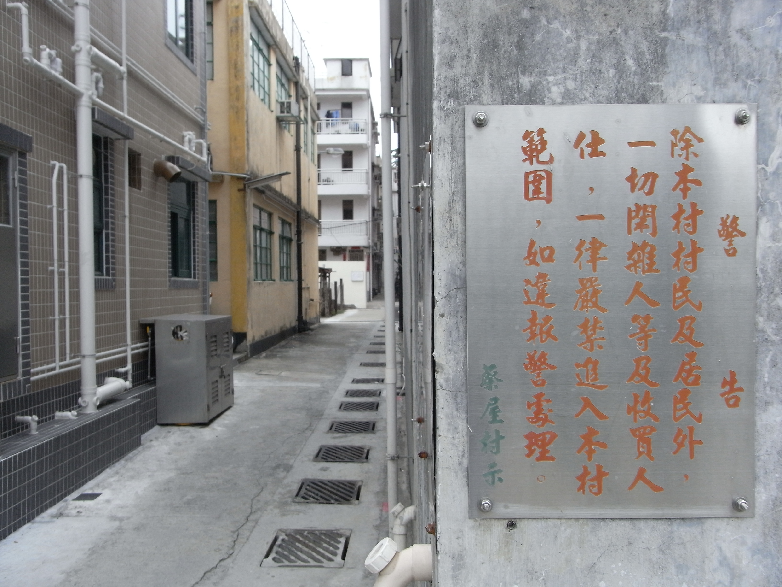 元朗十八鄉蔡屋村